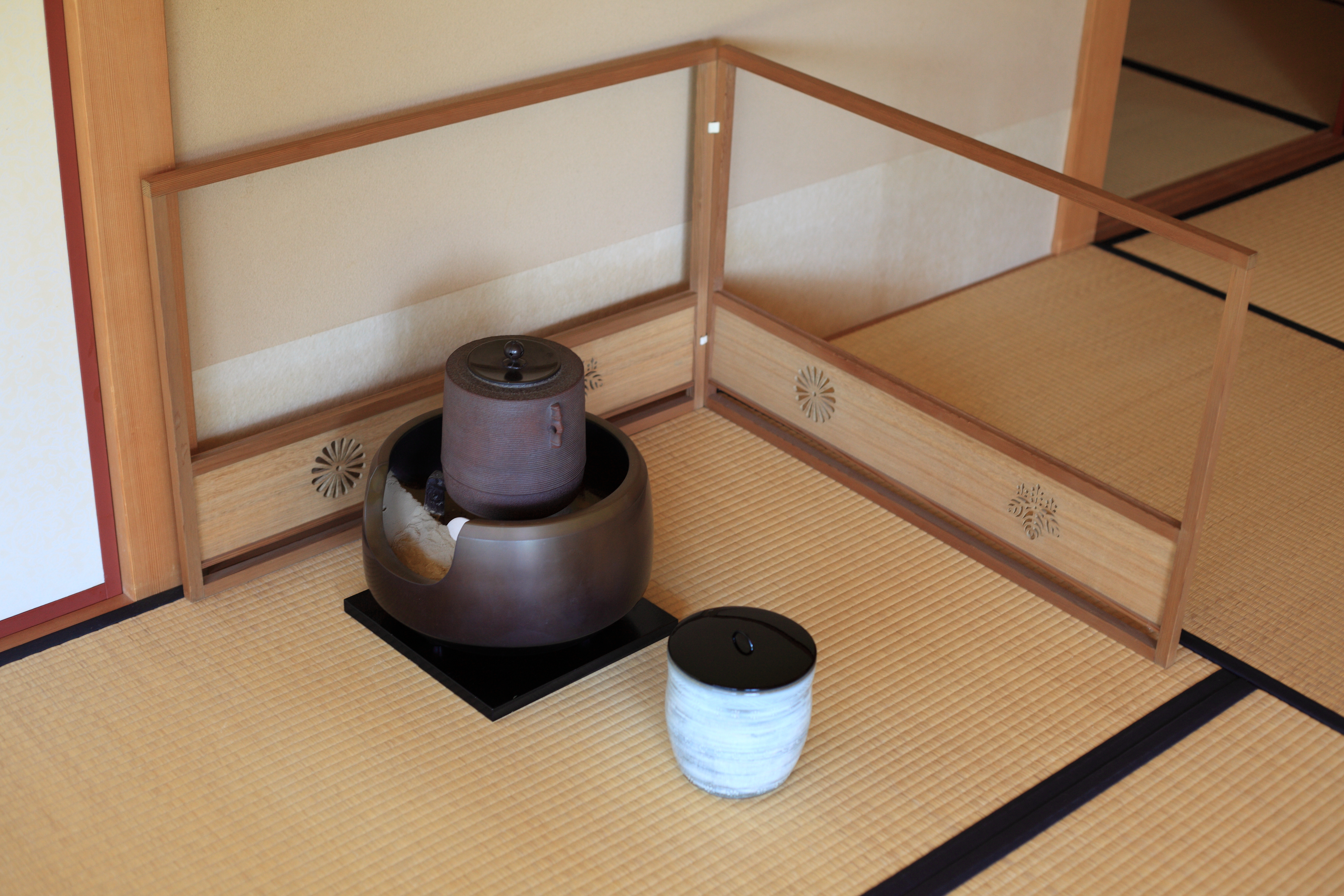 Shouraku-tei Suiraku-en(garden), Shirakawa-shi(city) Fukushima-ken(Prefecture), Japan This paravent made of wood is called furosaki-byoubu. In the forefront there is a waterpot called mizusashi. The there is the fuuro with a chagama / rogama upon.